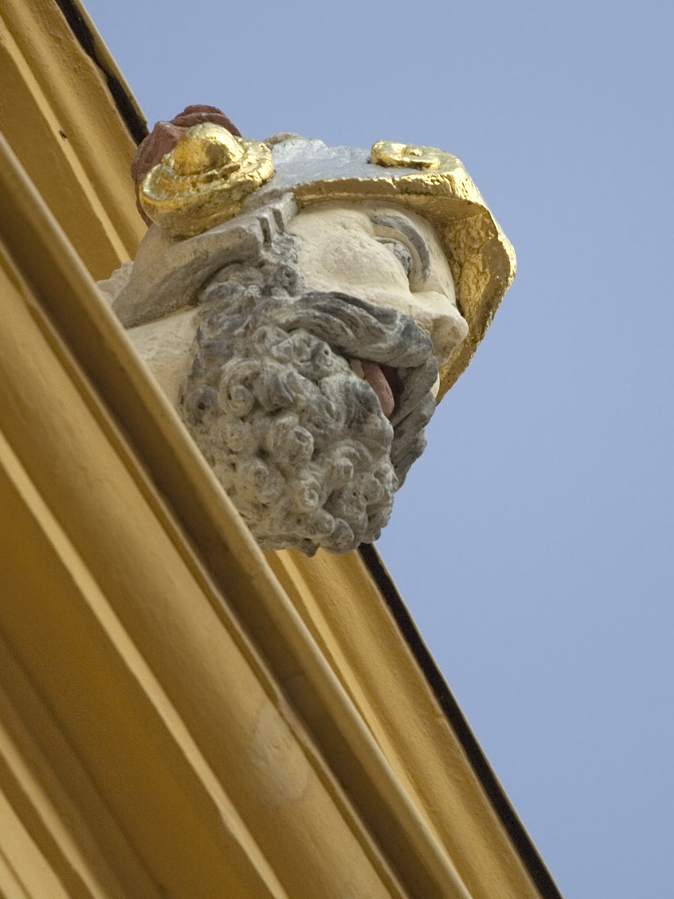 Freiberg, townhall, bay window: detail reputed to show Kunz von Kauffungen looking at his place of execution